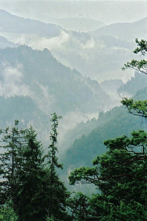 Adlitzgraben valley (municipality Breitenstein, Lower Austria) east of Semmering, seen from Doppelreiterwarte lookout on a misty day.